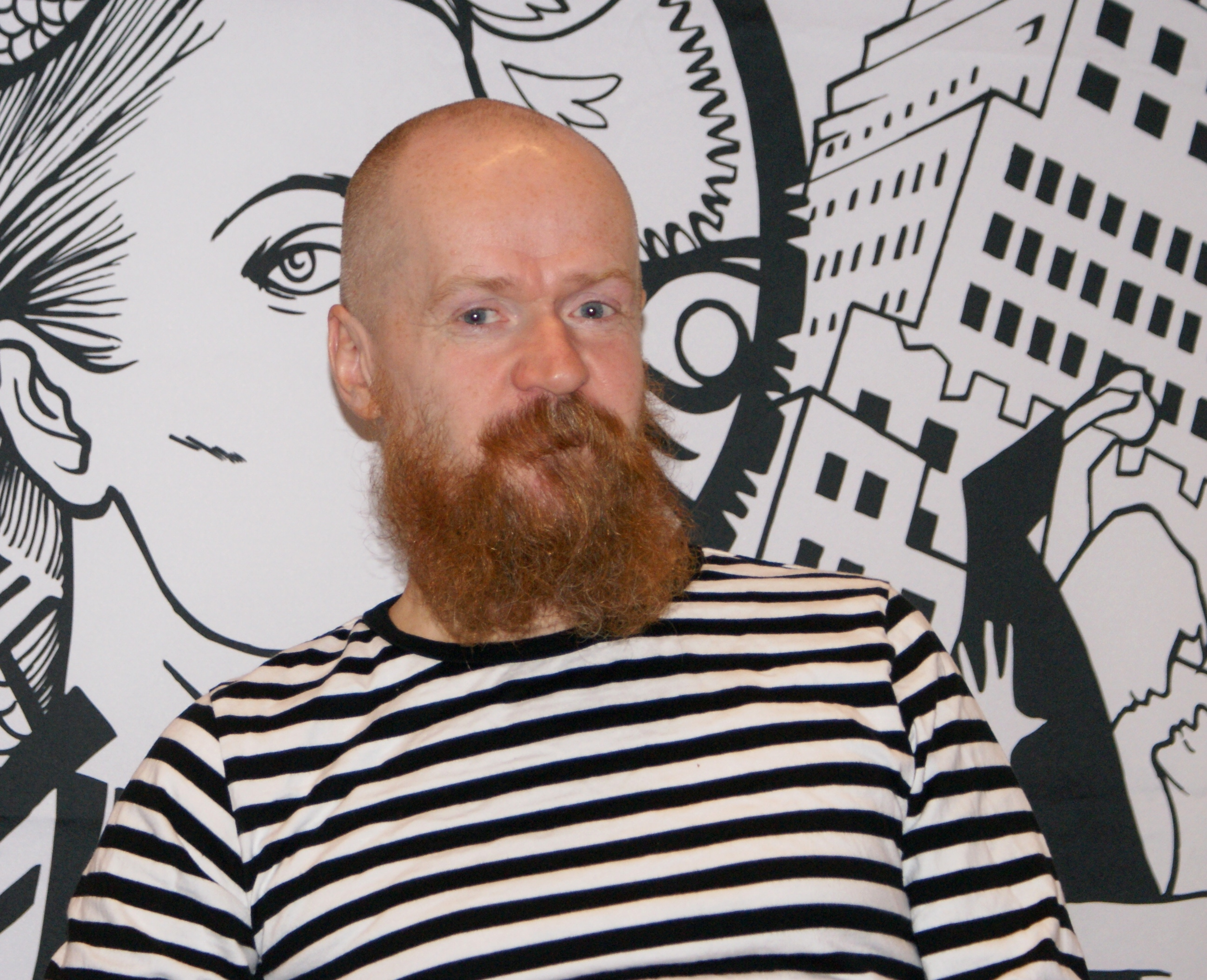 At the bookfair in Gothenburg 2009.